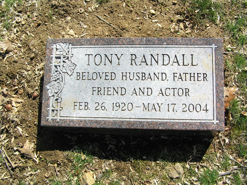 I took this photograph of Tony Randall's headstone in The Westchester Hills Cemetery in Hastings-on-Hudson, New York, on April 10, 2006. -- GNU Free Documentation License